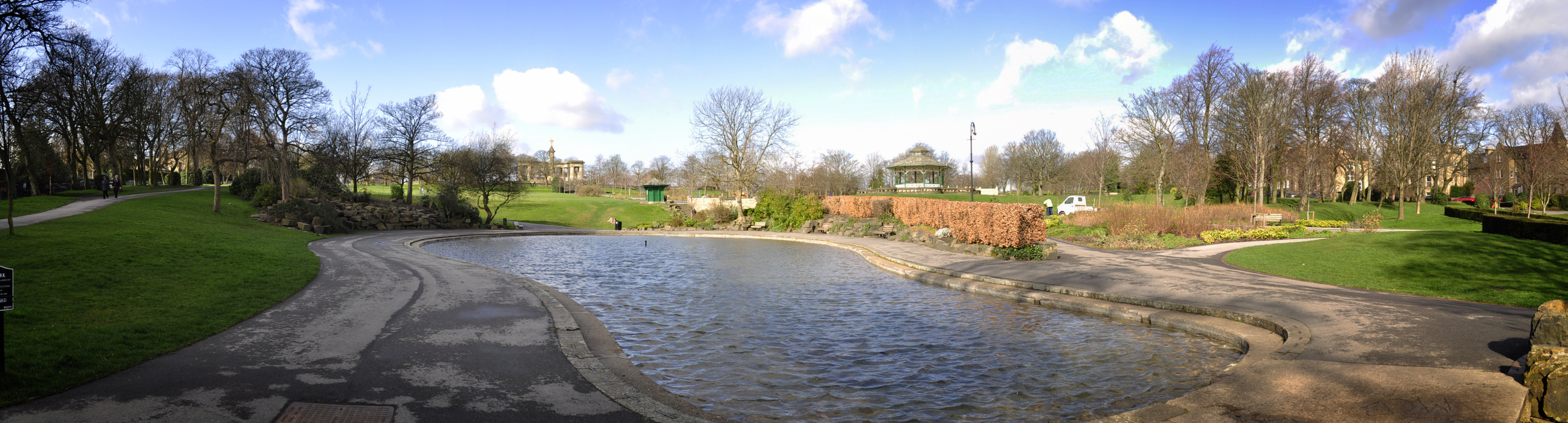 Greenhead Park - Spring 2014 - Panorama